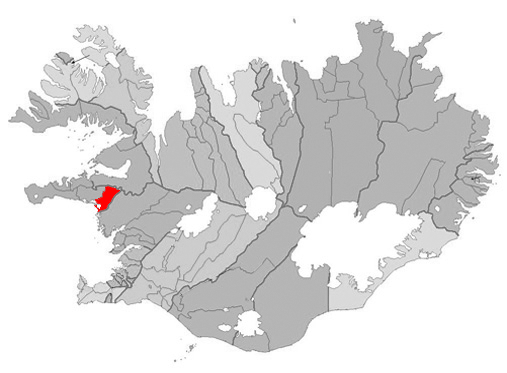 Based on Municipalities of Iceland.png.